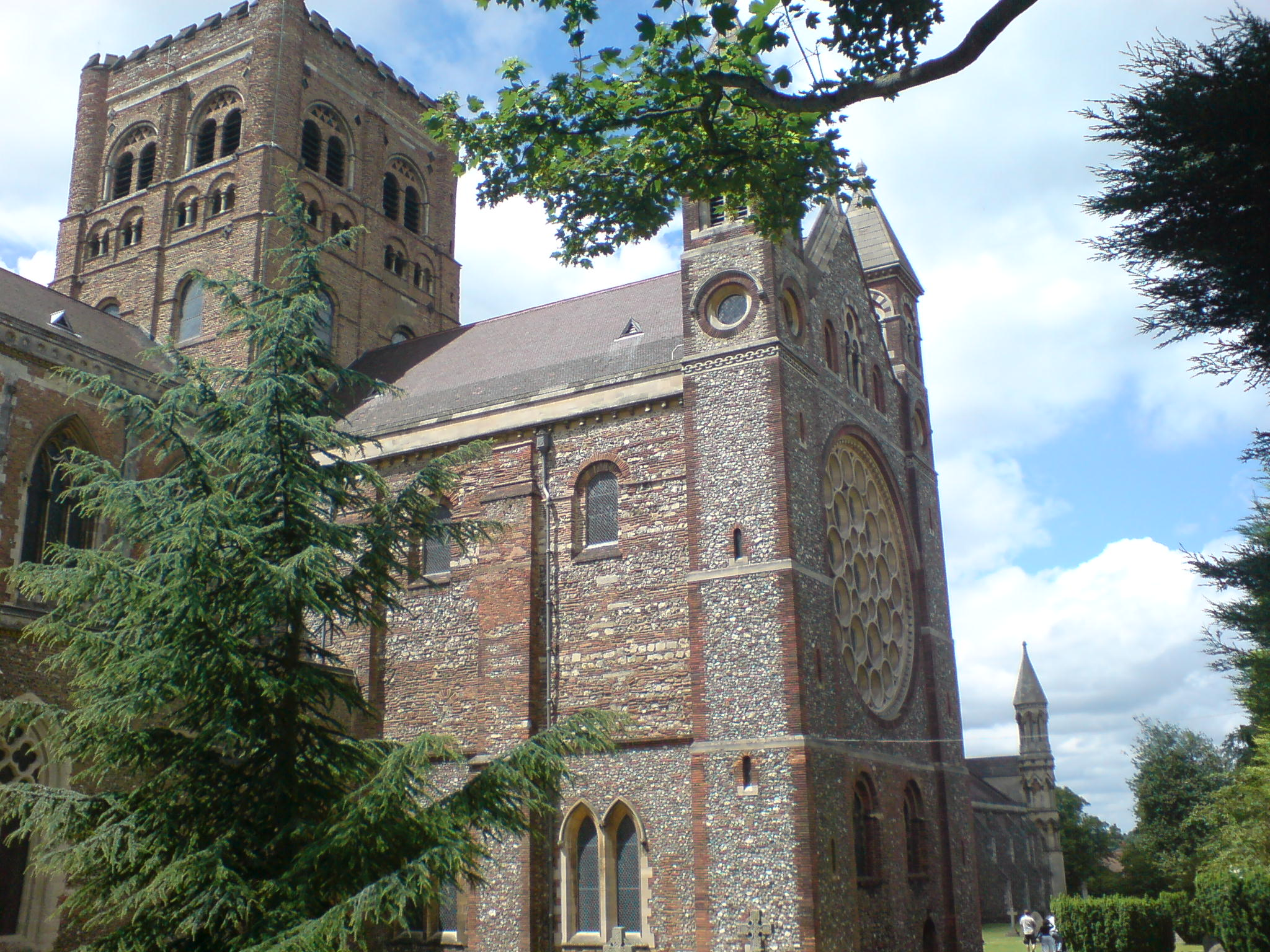 St Albans Cathedral